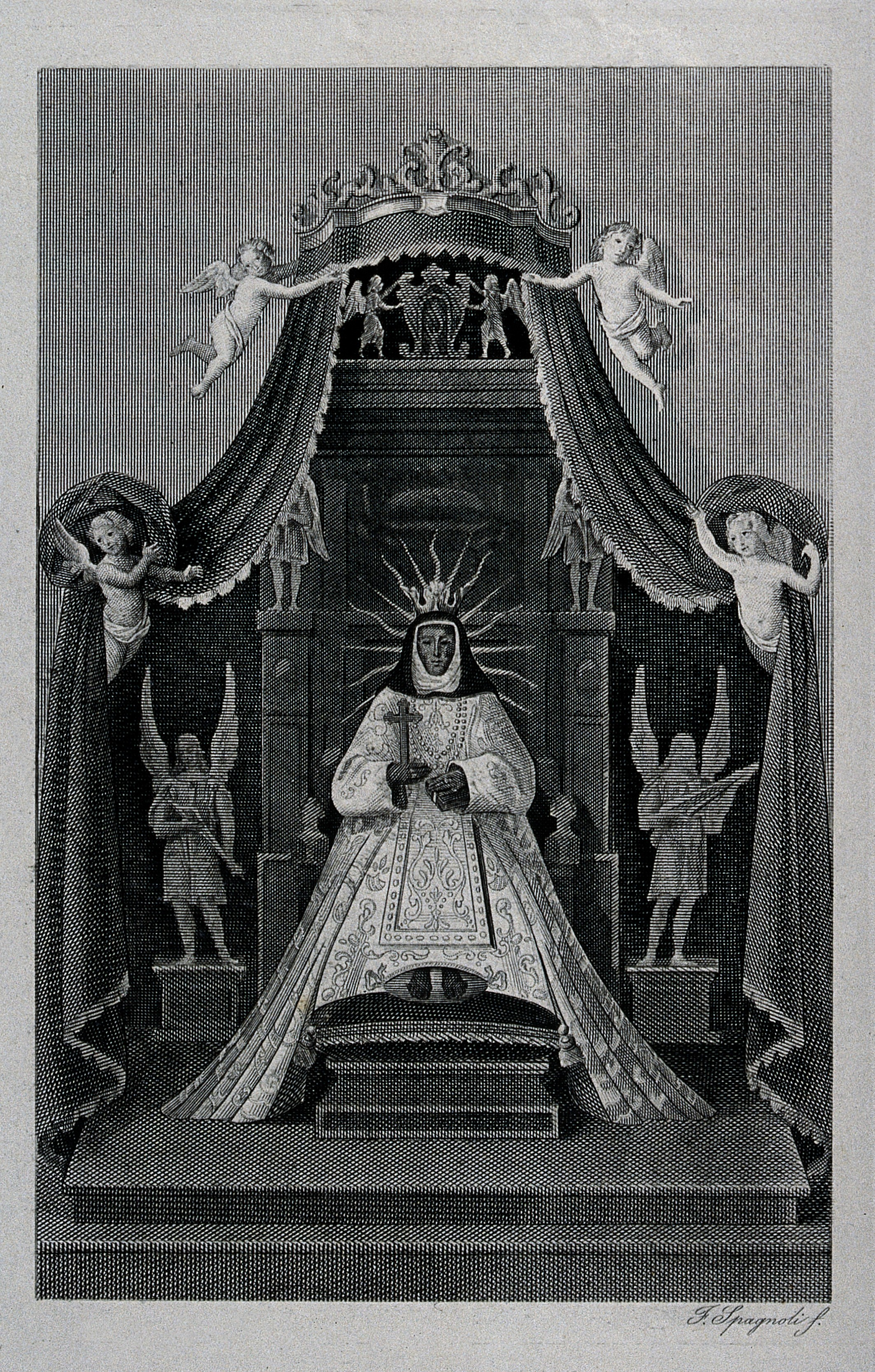 Saint Catherine of Bologna. Line engraving by F. Spagnoli. Iconographic Collections